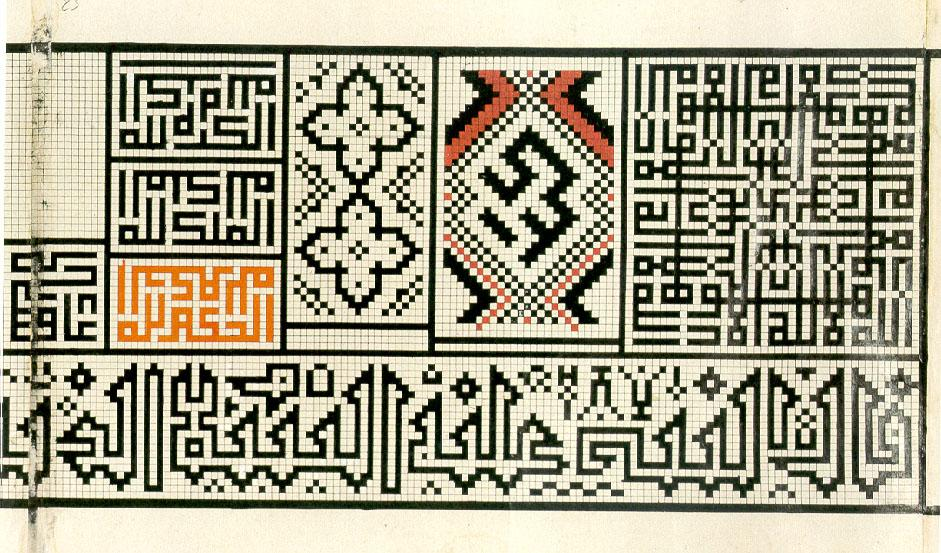 Panel from the Topkapi Scroll. Strip of a naskhi inscription, square kufic calligraphic panels, linear repeat unit of square kufic inscriptions, and linear repeat unit of geometric patterns.